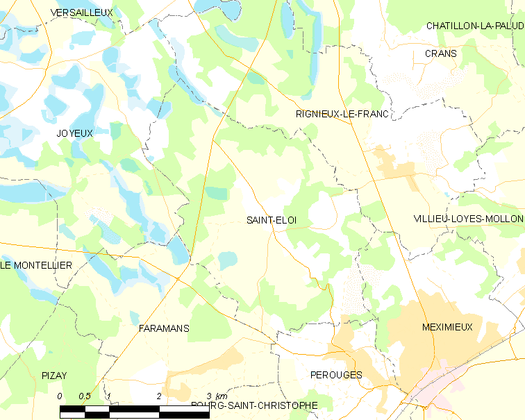 Map of French commune: Saint-Éloi Map commune FR insee code 01349.png